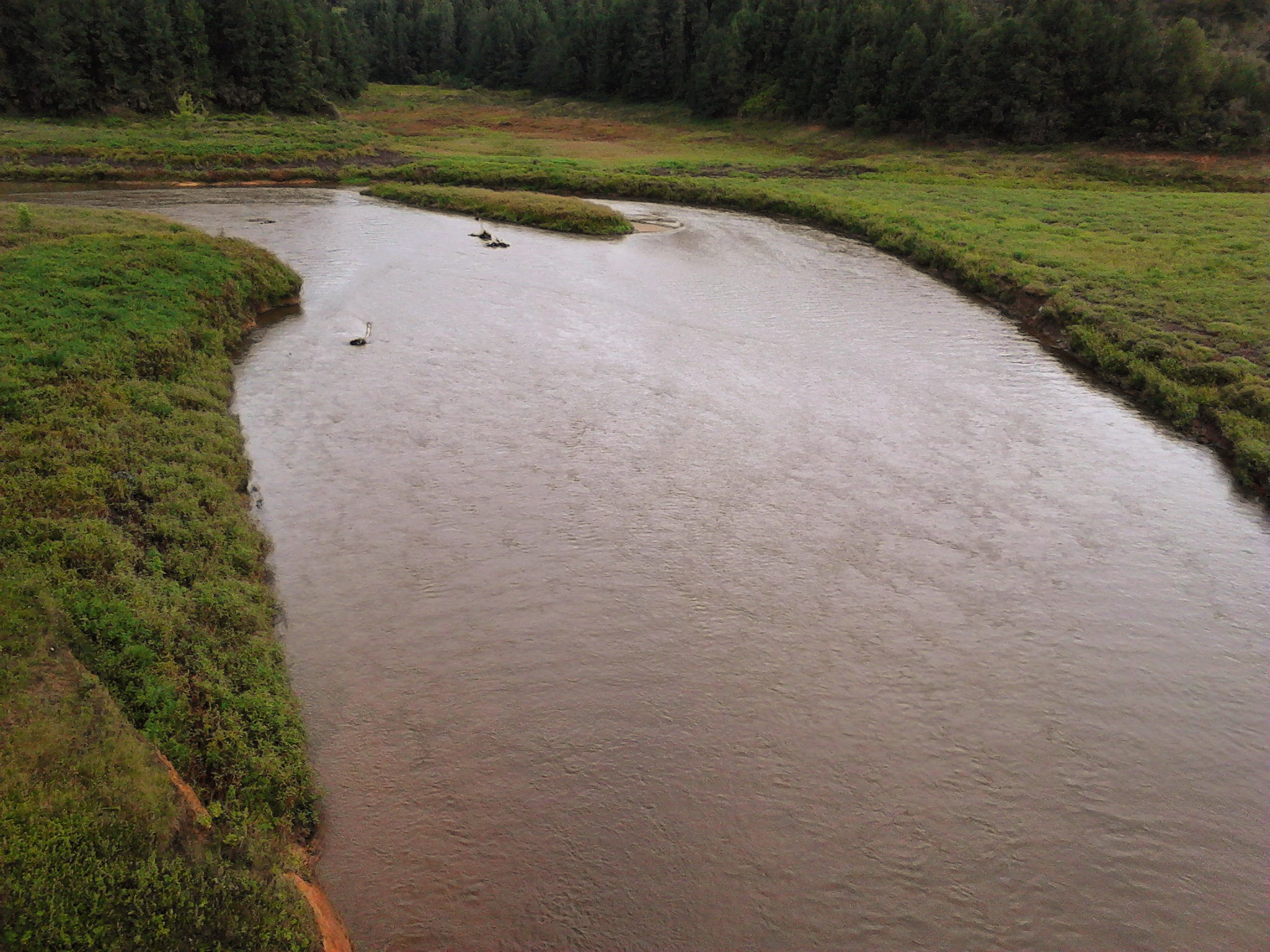 Rio Grande, Entre Santa Rosa de Osos y Entrerríos